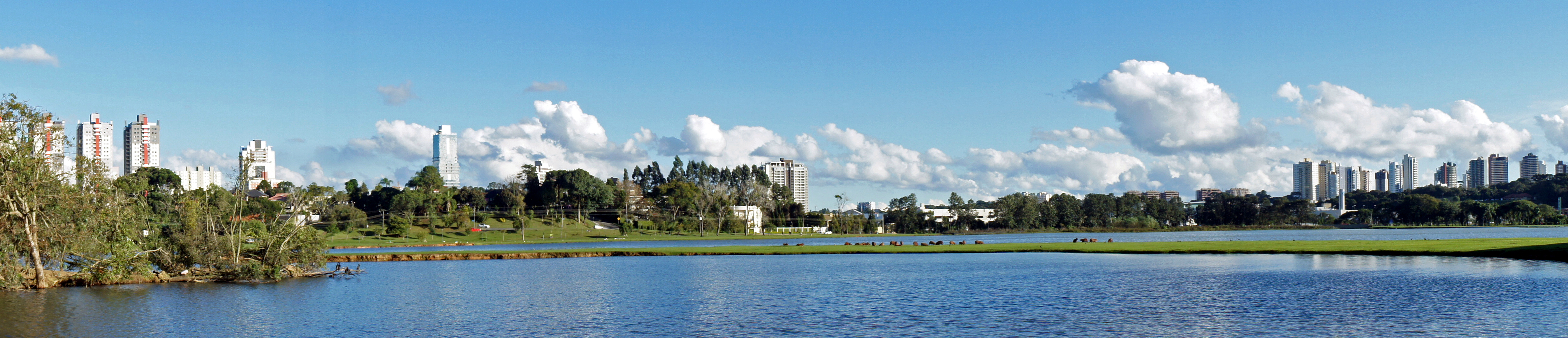 Panoramic view of Parque Barigüi, Curitiba, Brazil